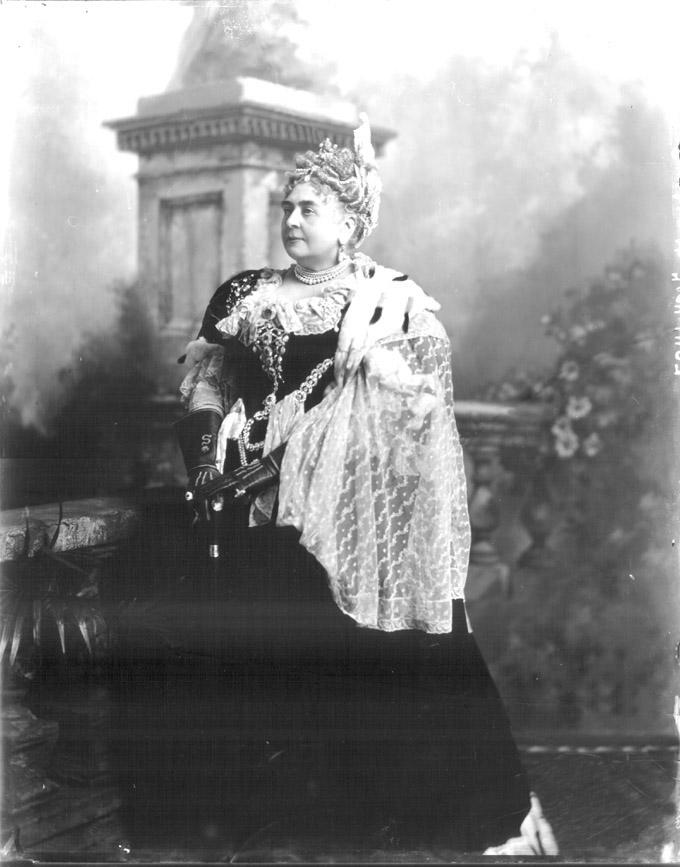 Mary Adelaide, Duchess of Teck as her ancestress, Princess Sophia, Electress of Luneberg and Hanover